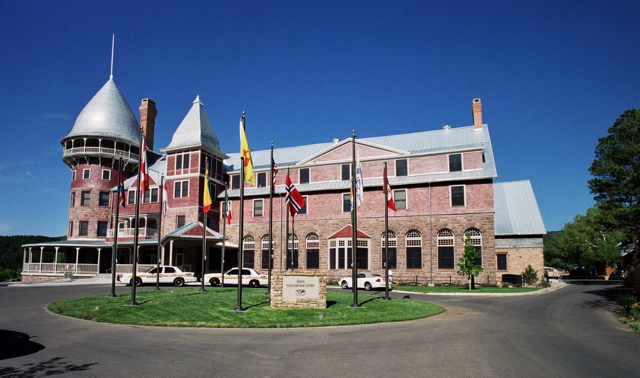 The Montezuma Hotel, aka the Montezuma Castle, aka the Davis Center, on the campus of the UWC-USA in Montezuma, NM.